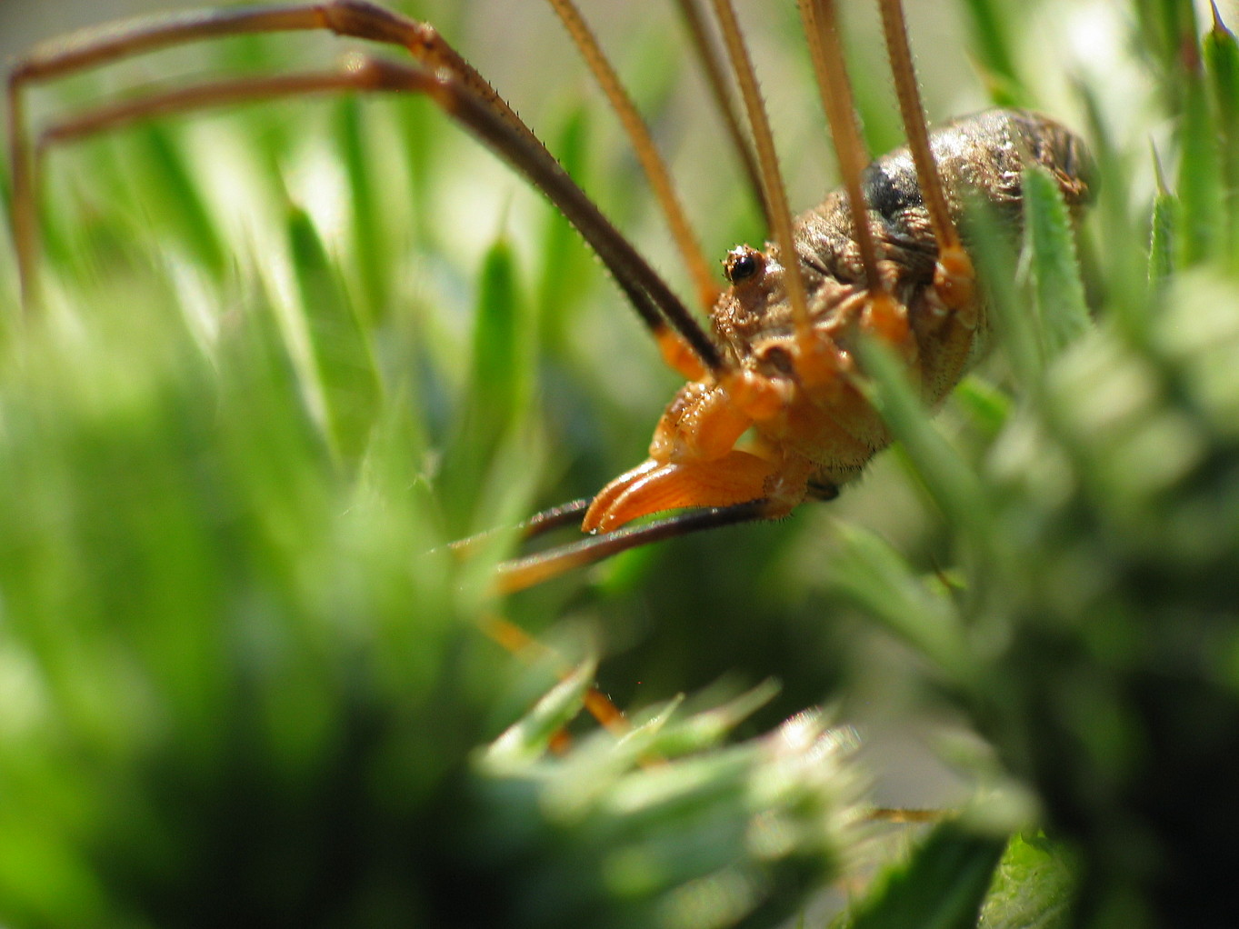 Harvestman in a flower pod. Macro photo, taken with a Canon G3 using an inverse mounted lens.